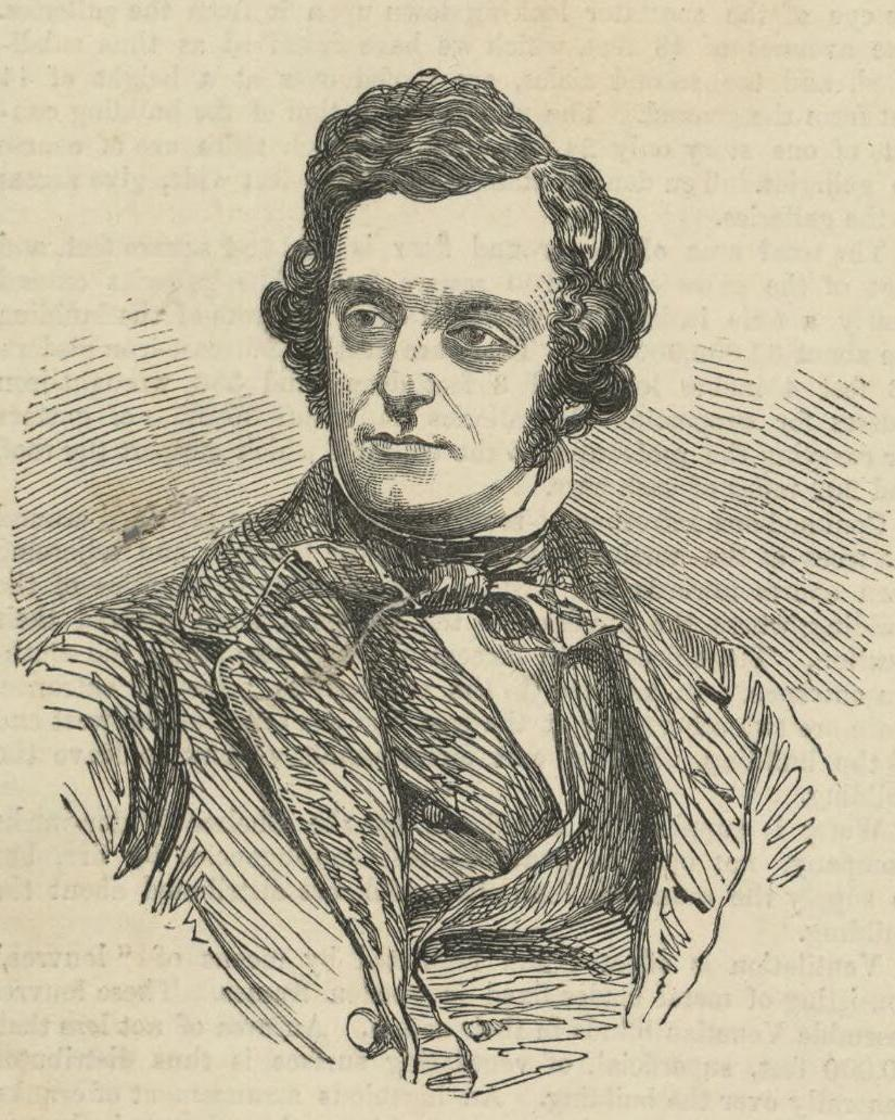 A portrait from the Welsh Portrait Collection at the National Library of Wales. Depicted person: Matthew Digby Wyatt – British architect and art historian